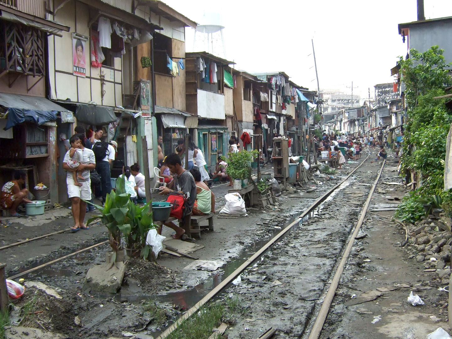 Squatters (Philippine National Railways in Manila)